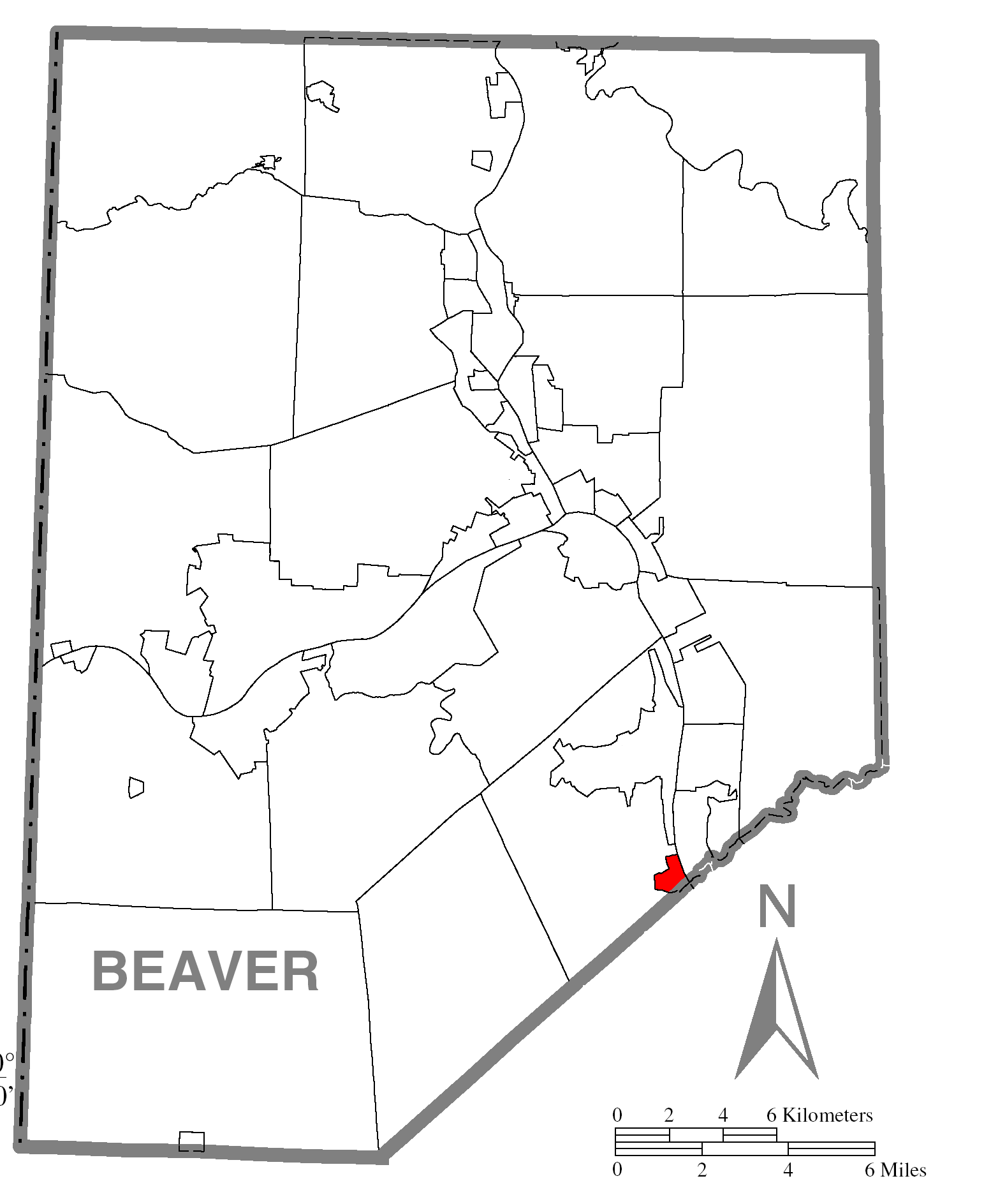 A map of Beaver County showing South Heights, Pennsylvania (alternate) highlighted on the map.